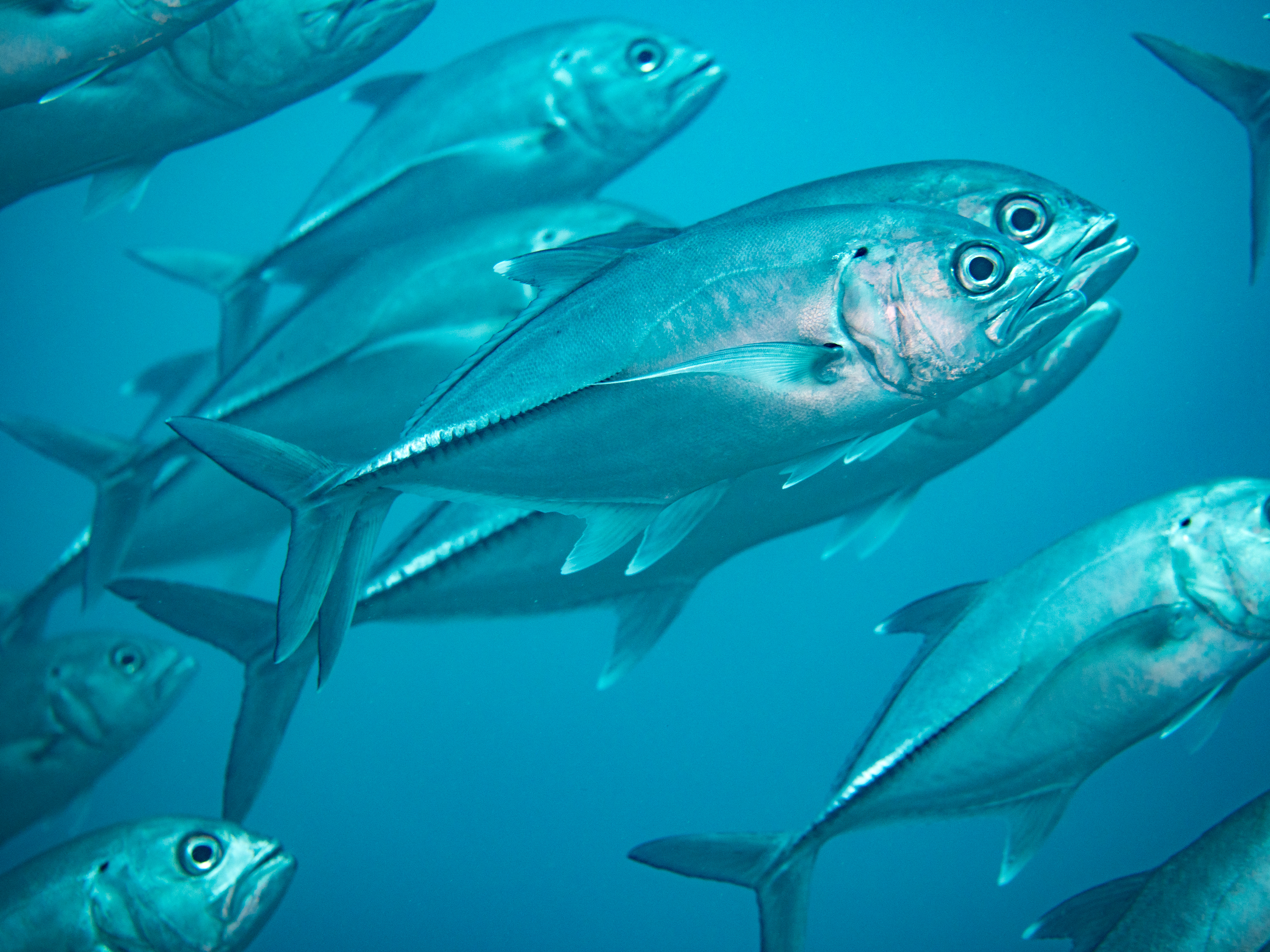 Bigeye trevally (Caranx sexfasciatus). Raja Ampat